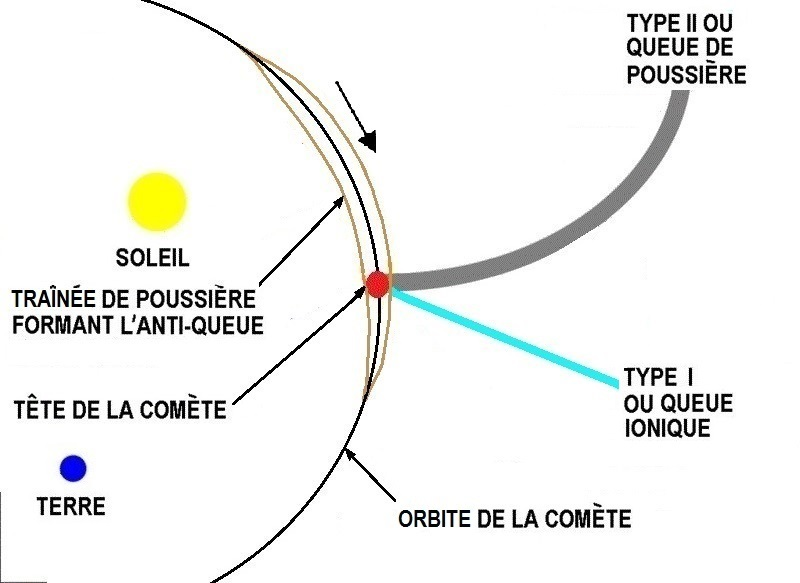 anti-tail of a comet